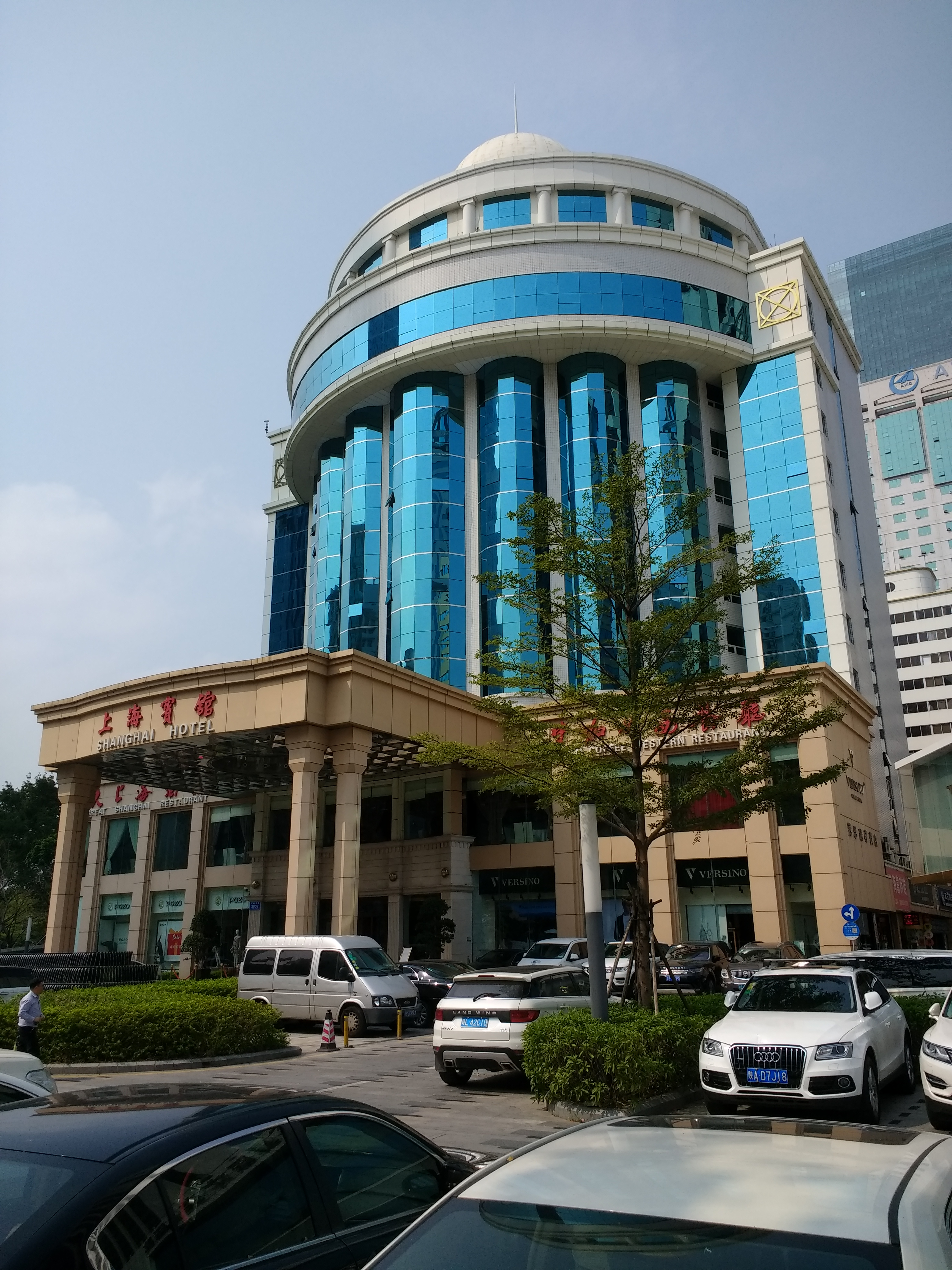 Shanghai Hotel, a historic building in Shenzhen.